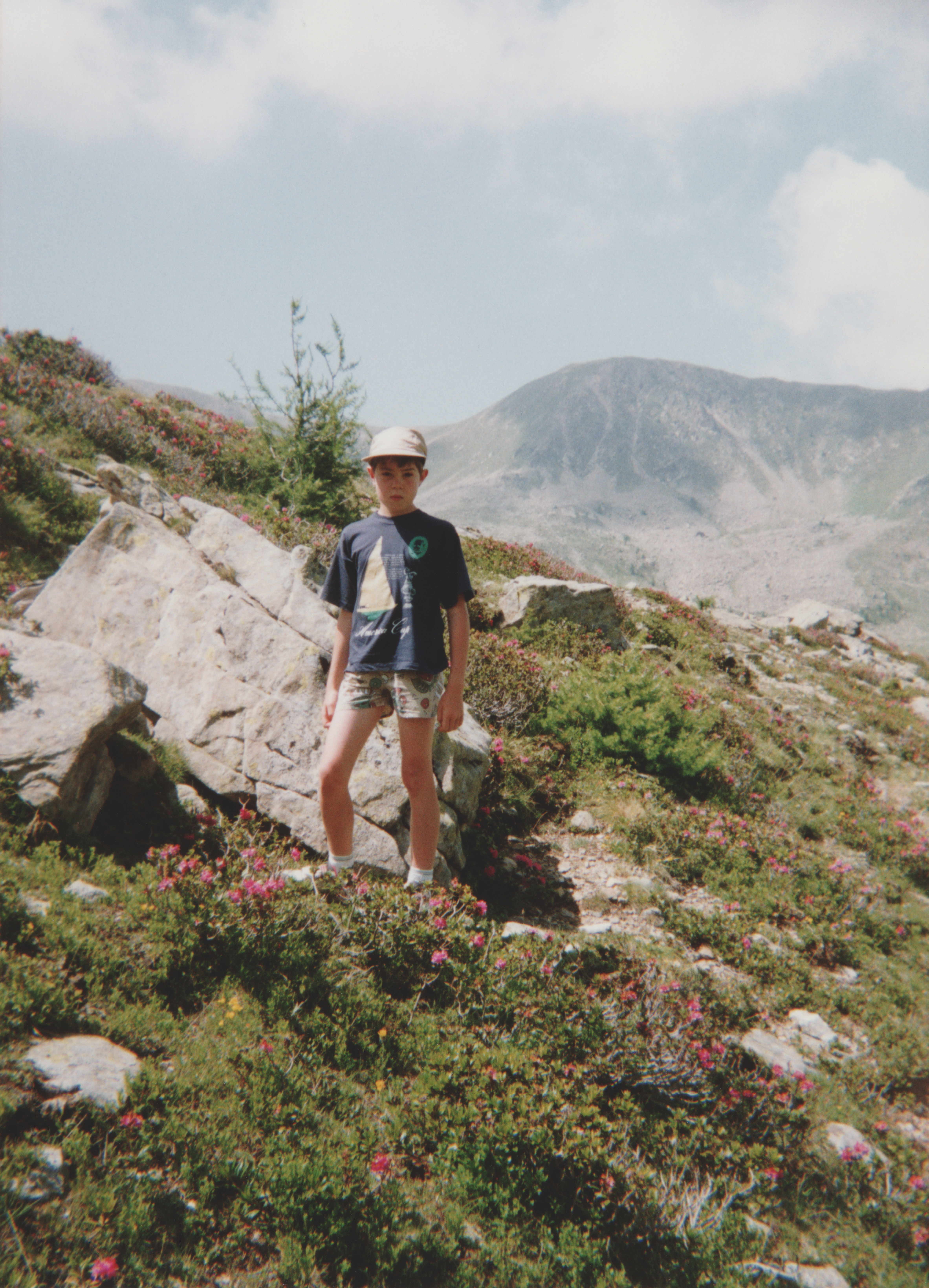 9 years old boy walking in the mountains - 1992